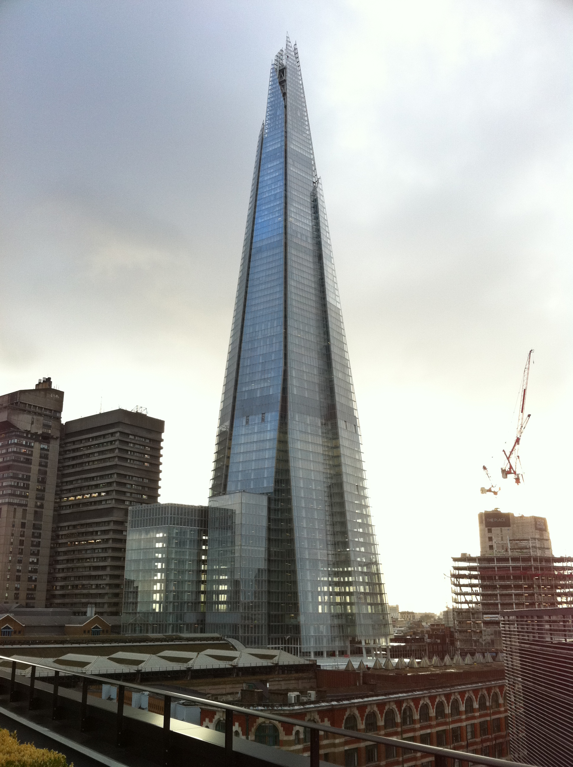 The Shard London Bridge under construction but topped out - May 2012